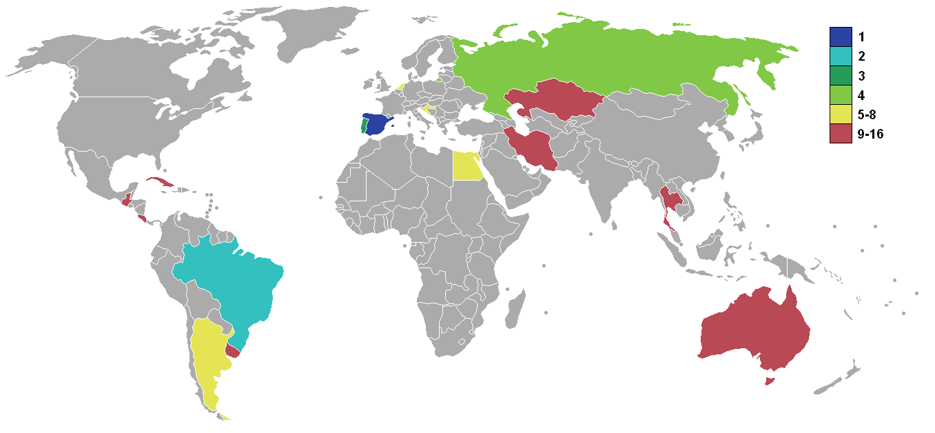 2000 FIFA Futsal World Championship